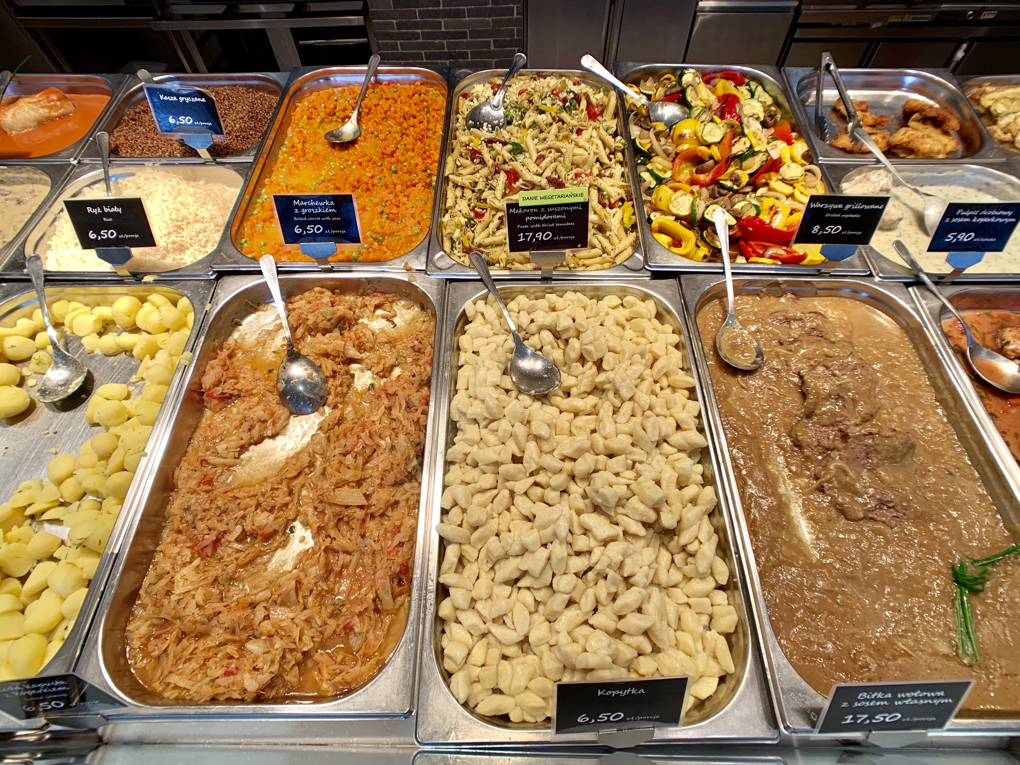 Selection of salads in fast food outlet in Warsaw, 2019